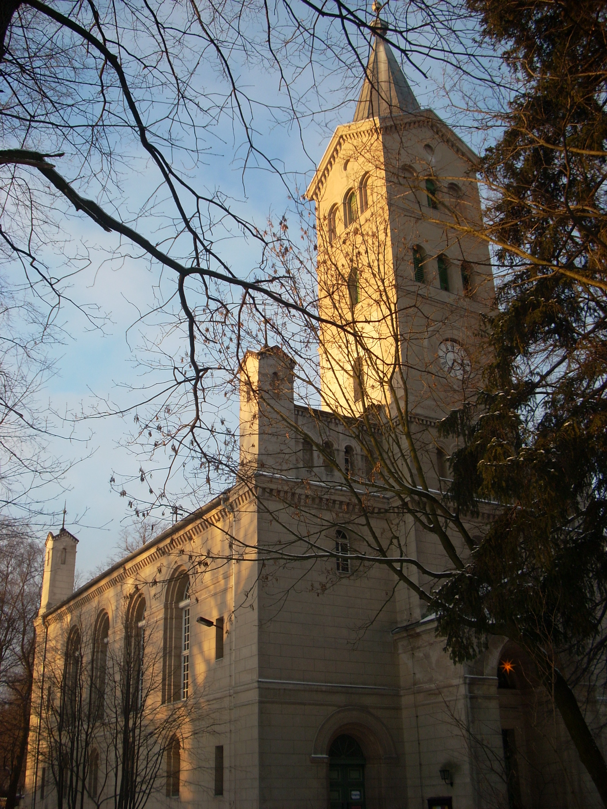 The Redeeemer Church in Kunnerwitz